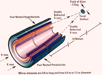 Wolter Telescope Status: Public Domain